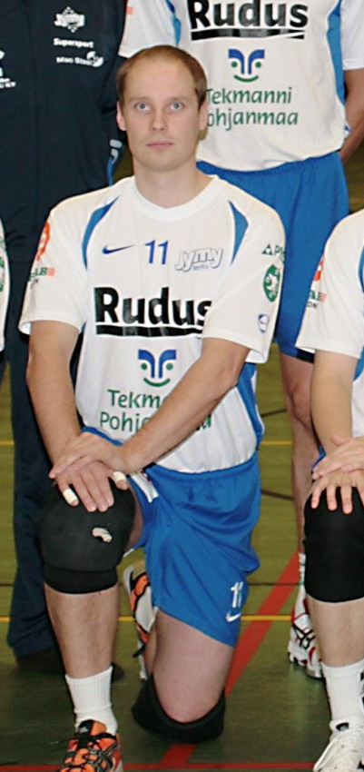 Eng: Nurmon Jymy volleyball team captain Timo Alanen. Fin: Nurmon Jymyn miesten 1-sarjalentopallojoukkueen kapteeni Timo Alanen.